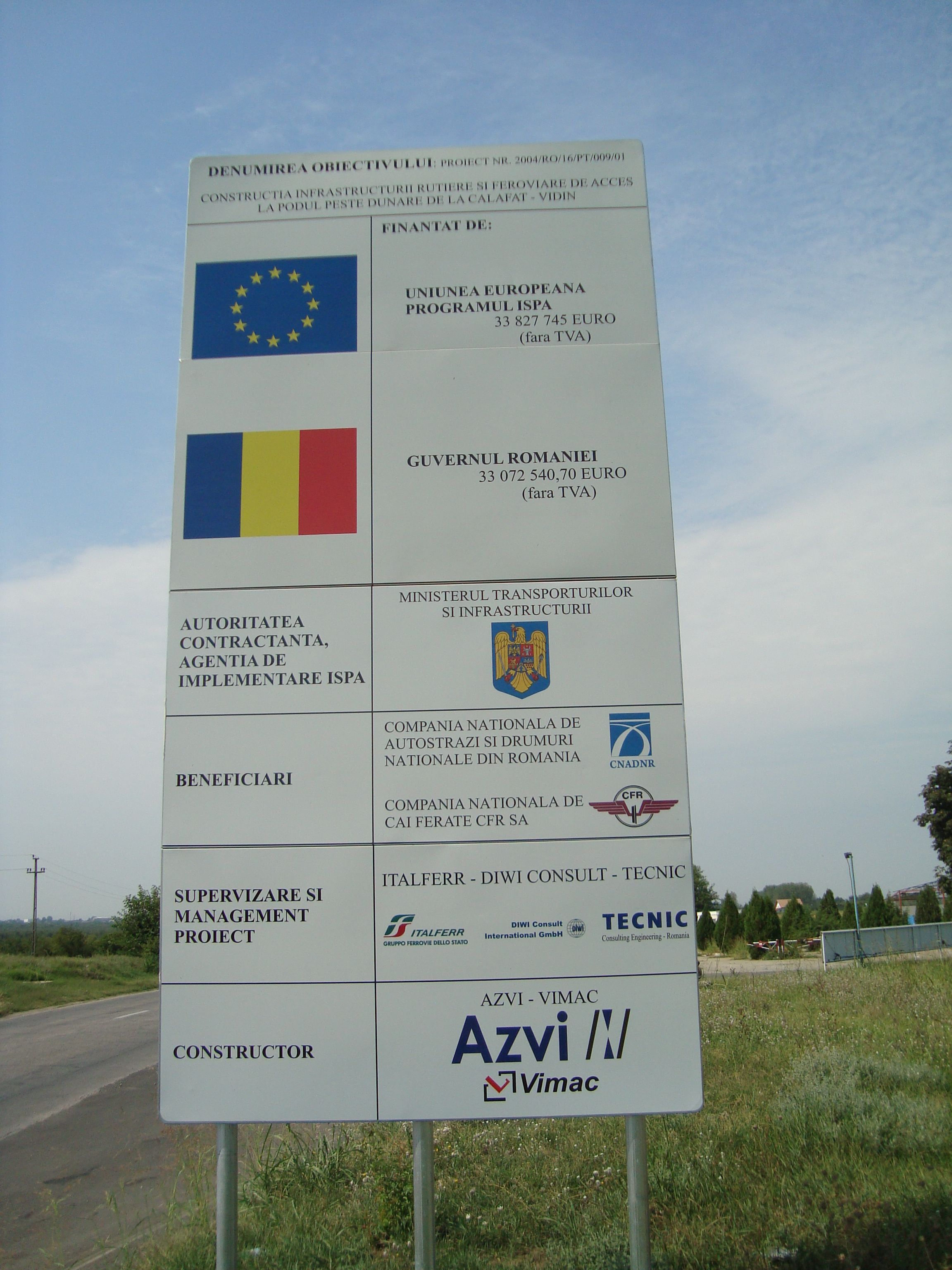 Project sign of the adjoining infrastructure to Vidin-Calafat Bridge on the Romanian bank of Danube.